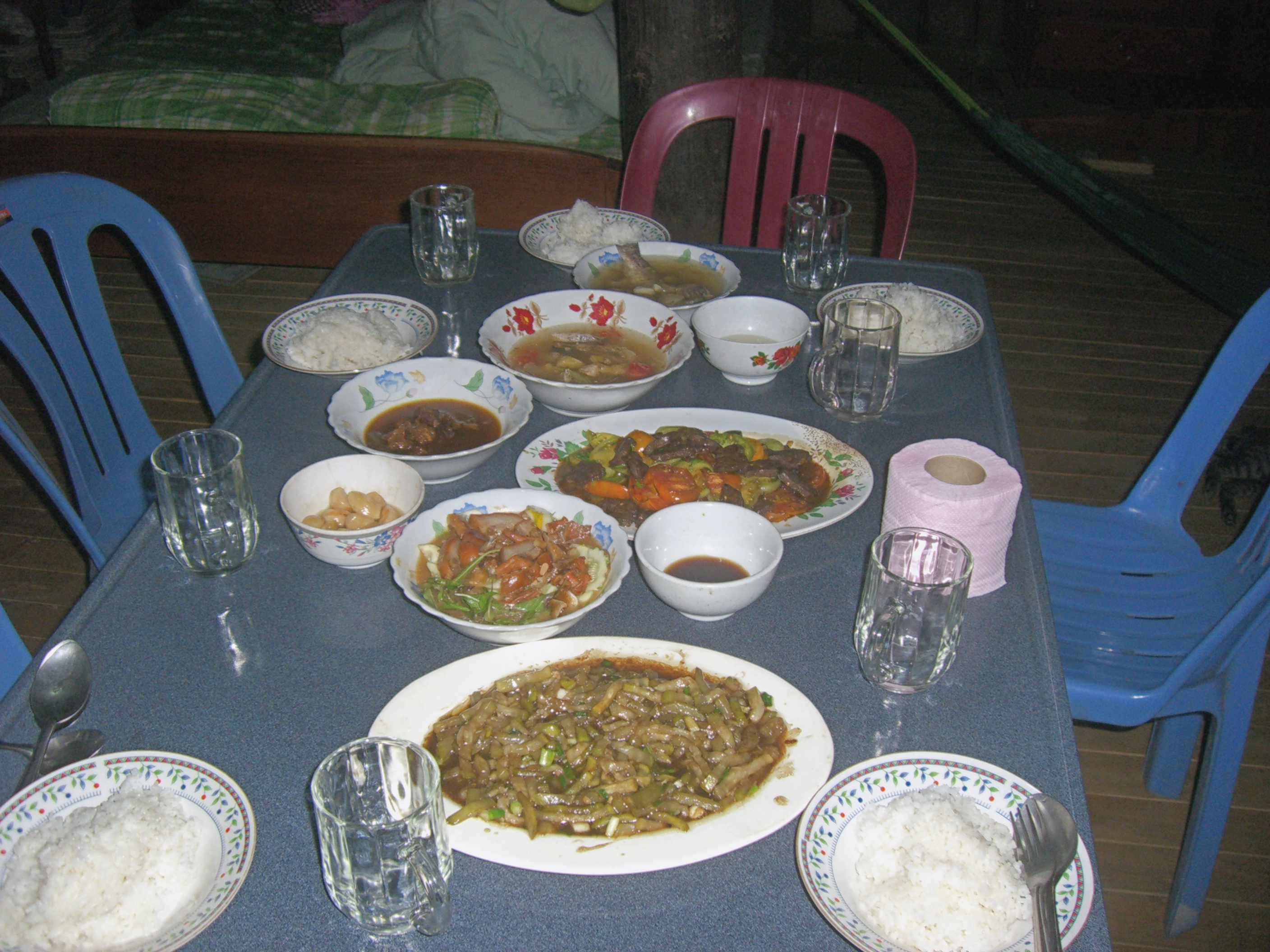 This was just half the food that came out. Eventually, they realized that the table was not big enough for all the food and everyone who was coming over. We moved everything to the floor and ate sitting cross-legged.